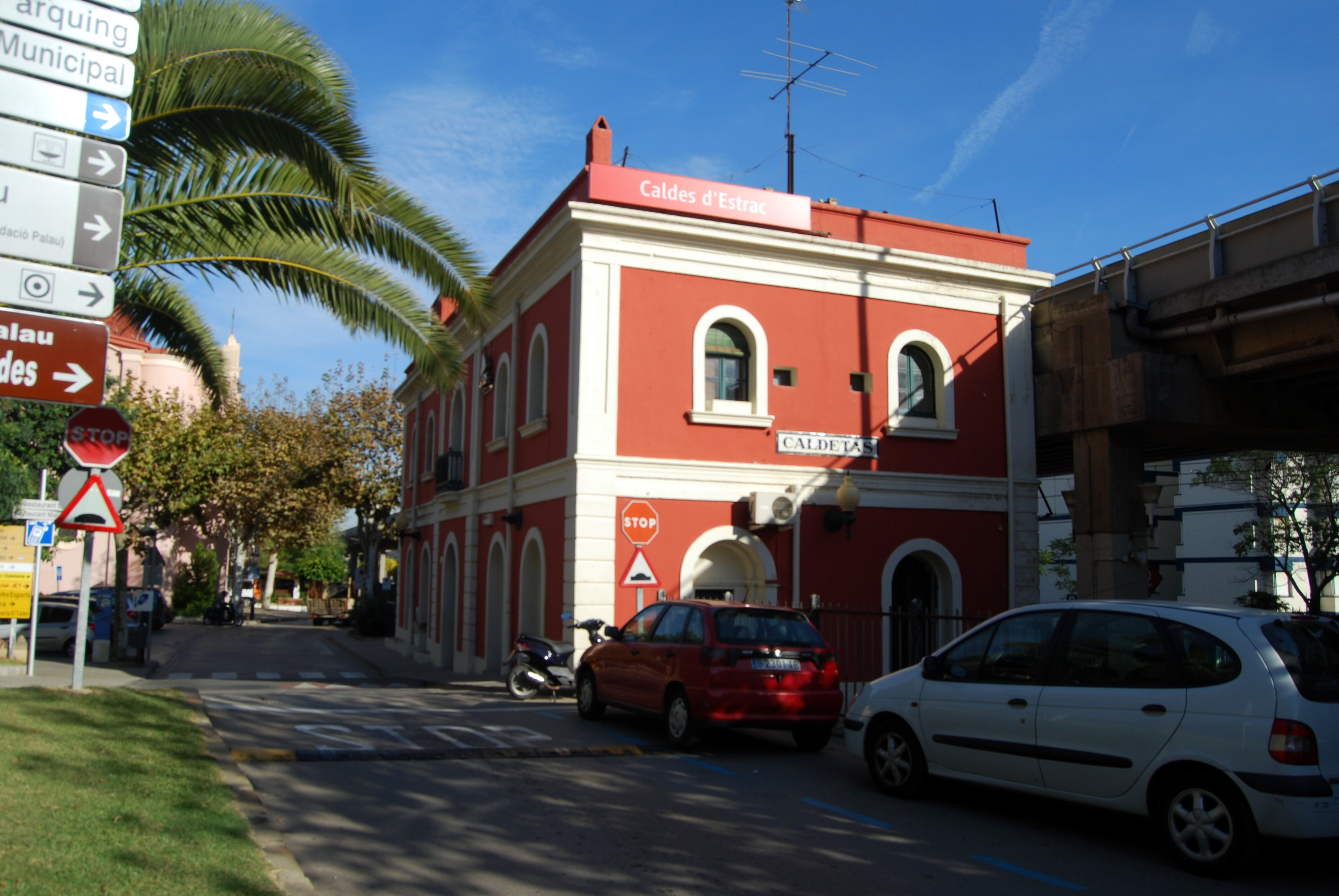 Caldes d'Estrach, El Maresme, (Catalunya) train station.